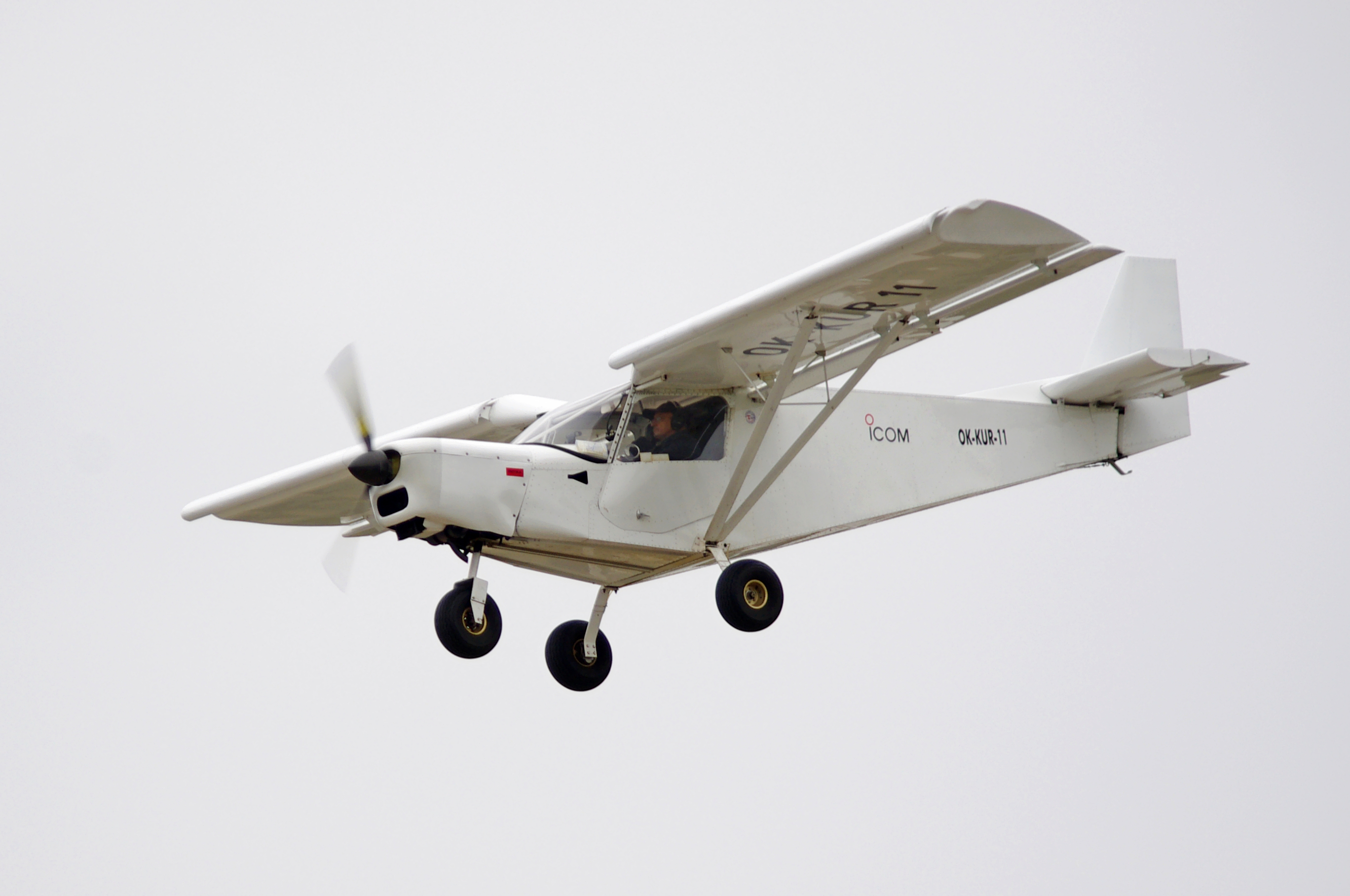 Zenair STOL CH 701 at Aircraft Picnic in Kraków